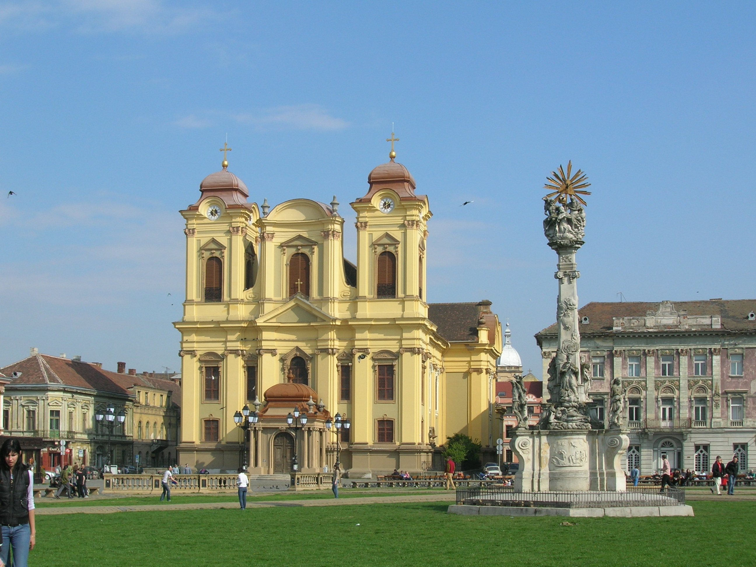 Piaţa Unirii - Votive figure and The Saint George romano-catolic Dome. Timişoara (Romania).